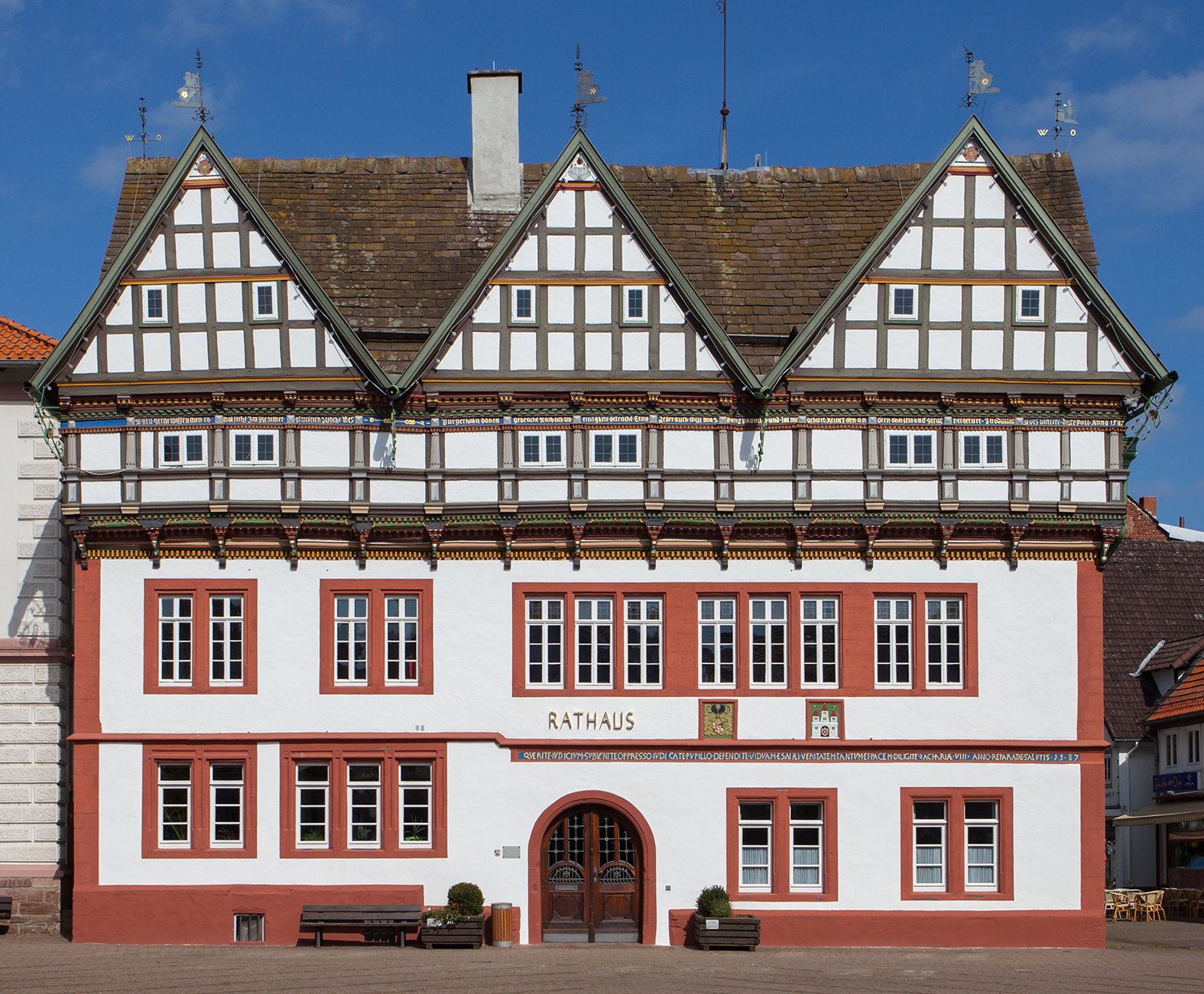 Town hall in Blomberg, Germany This is a photograph of an architectural monument.